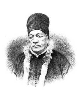 Rigas Palamidis, fought for the Greek revolution of 1821, prominent politician, elected in 6 national assemblies, senator, minister, president of the national assembly